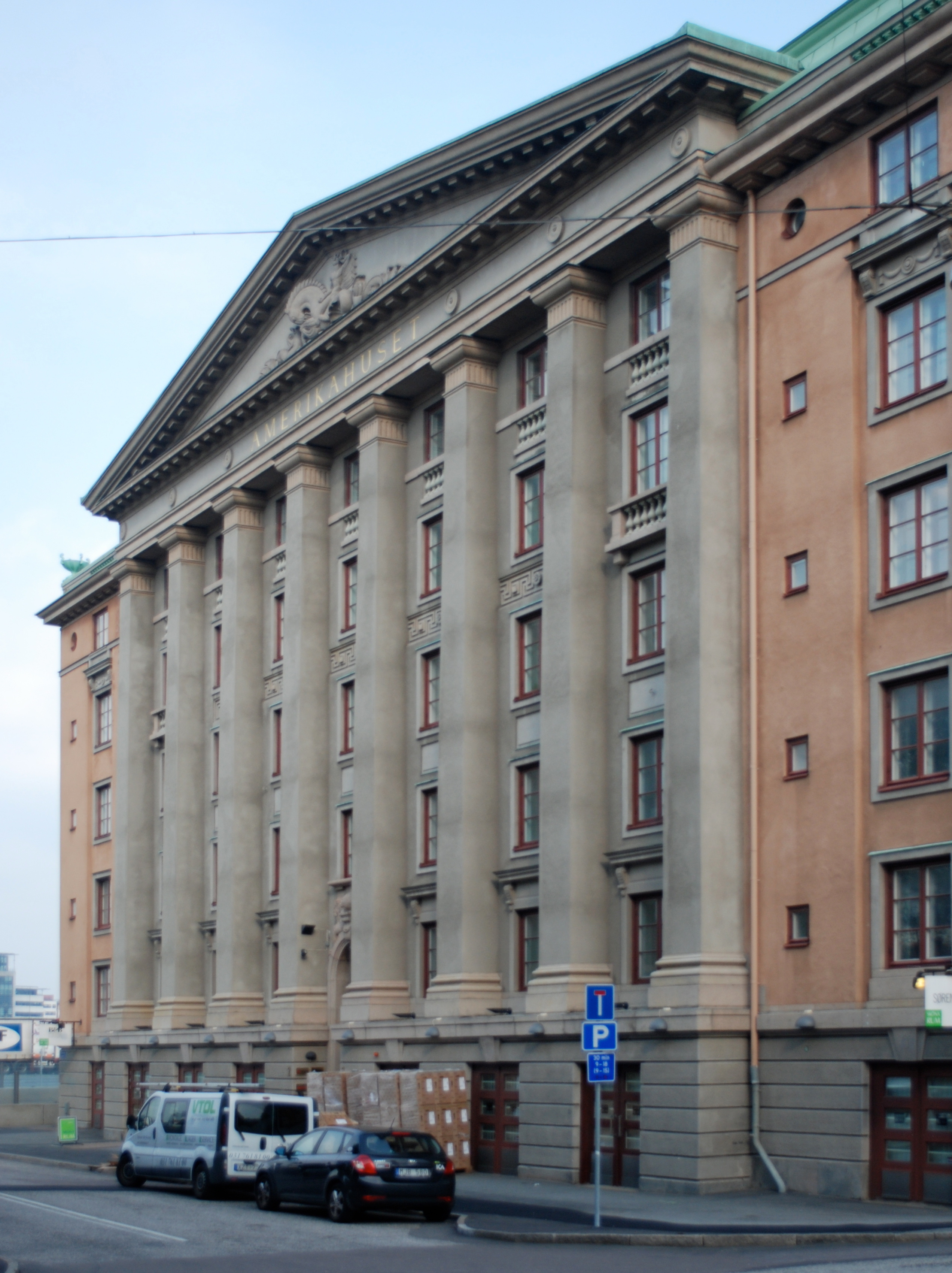 Amerikahuset.